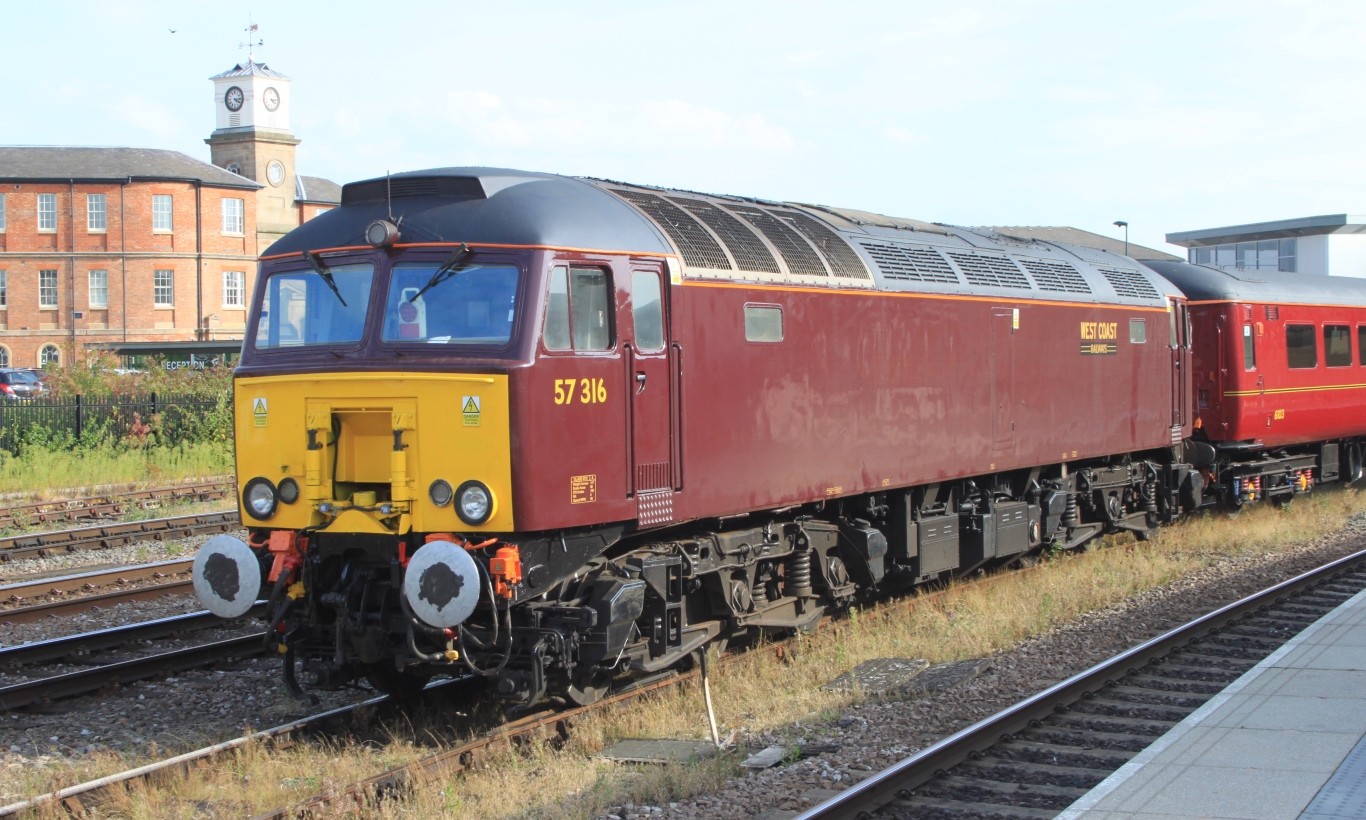 West Coast Railways' 57316 is at Derby with an empty train that is headed for Bath.